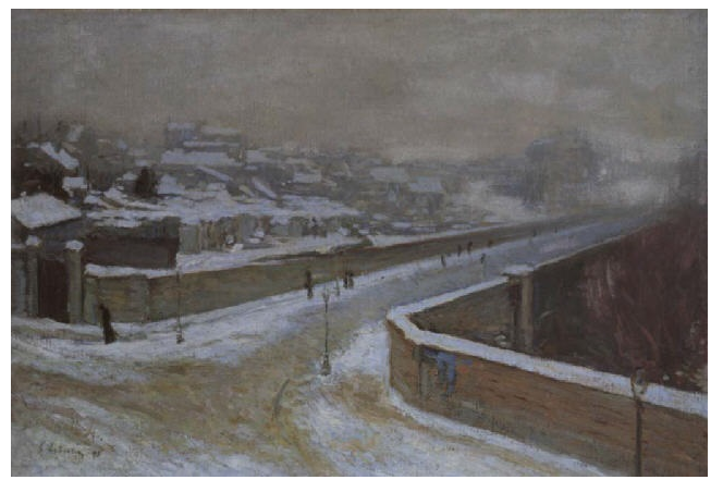 Soir de neige à Montmartre, oil on canvas, dim. : 49,5 x 73 cm.